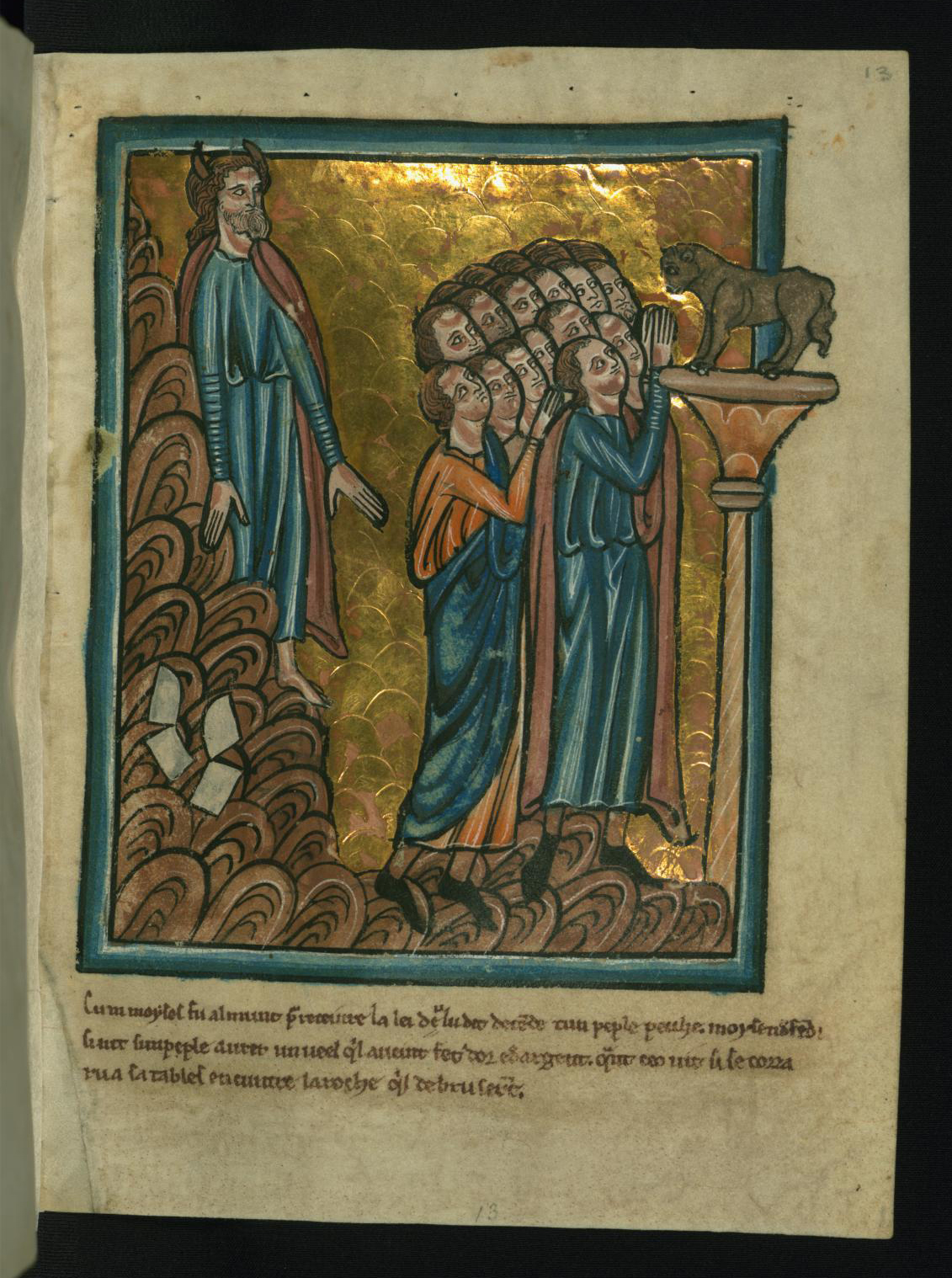 This scene from Walters manuscript W.106 depicts a moment when the Israelites were in the desert after their escape from Egypt. Moses (shown here with horns, a sign of his encounter with divinity) had been on Mount Sinai, alone, receiving instructions from God. The Israelites strayed from faith in God in his absence